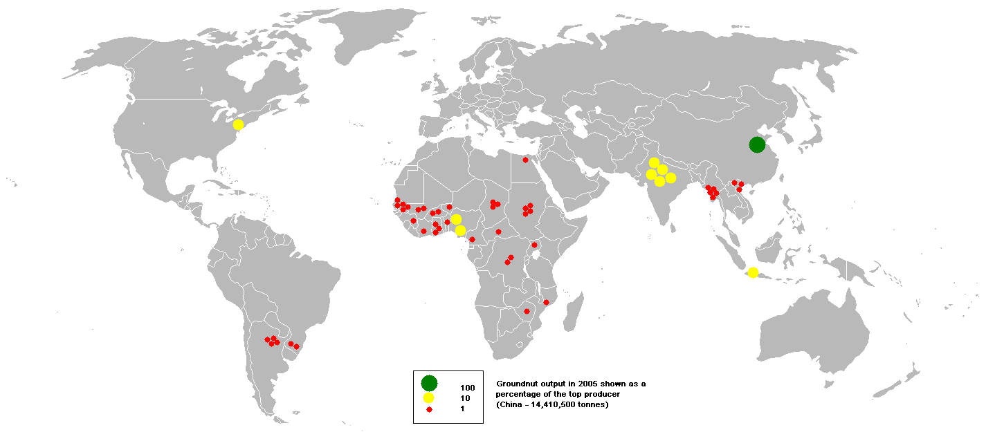 This bubble map shows the global distribution of groundnut output in 2005 as a percentage of the top producer (China - 14,410,500 tonnes). This map is consistent with incomplete set of data too as long as the top producer is known. It resolves the accessibility issues faced by colour-coded maps that may not be properly rendered in old computer screens. Data was extracted on 9th June 2007 from Based on :Image:BlankMap-World.png